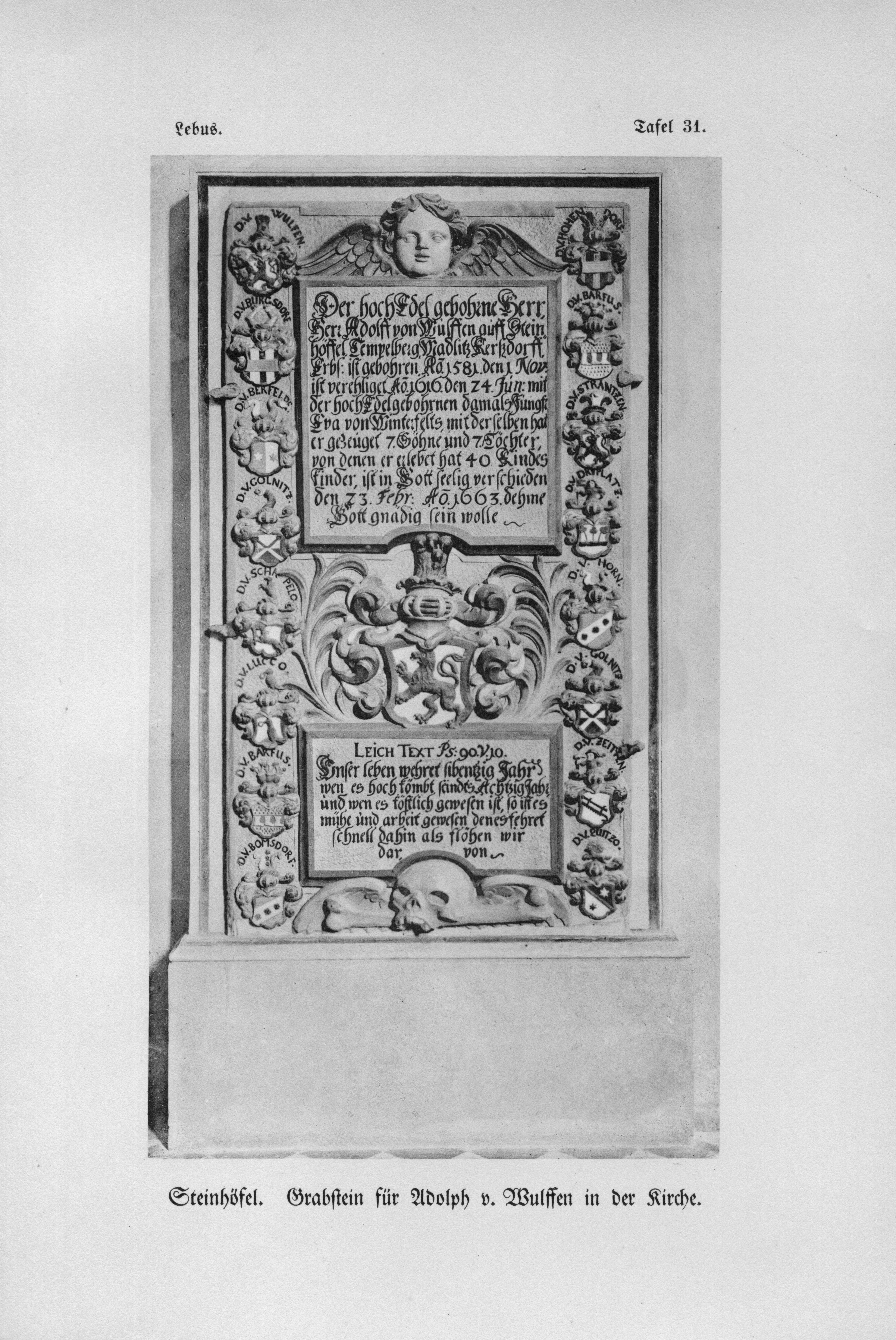 Gravestone for Adolph von Wulffen in the church in Steinhöfel, Brandenburg, Germany